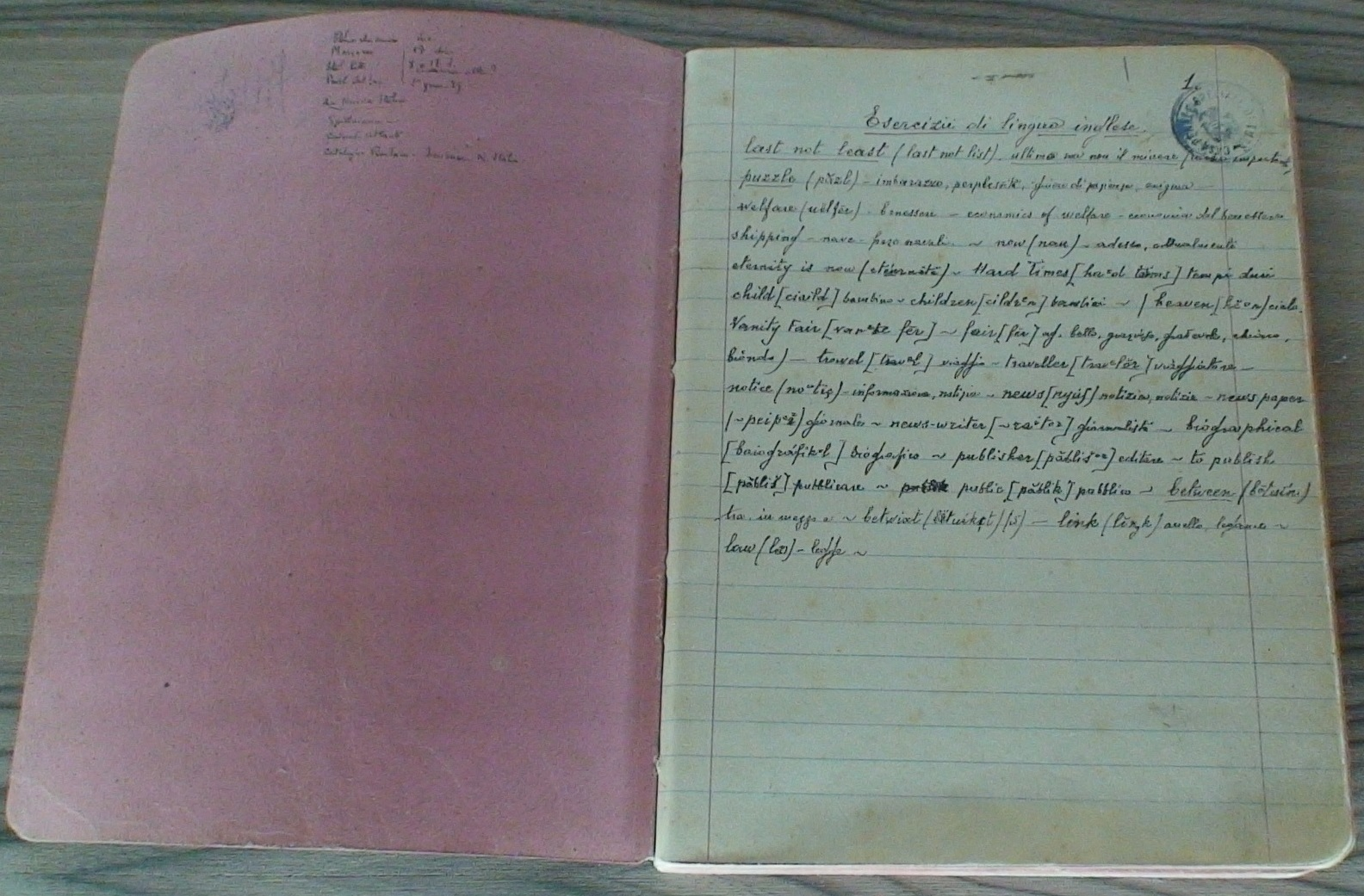 Antonio Gramsci: "Esercizii di lingua inglese". First page of a notebook (quaderno) with a English-Italian vocabulary.